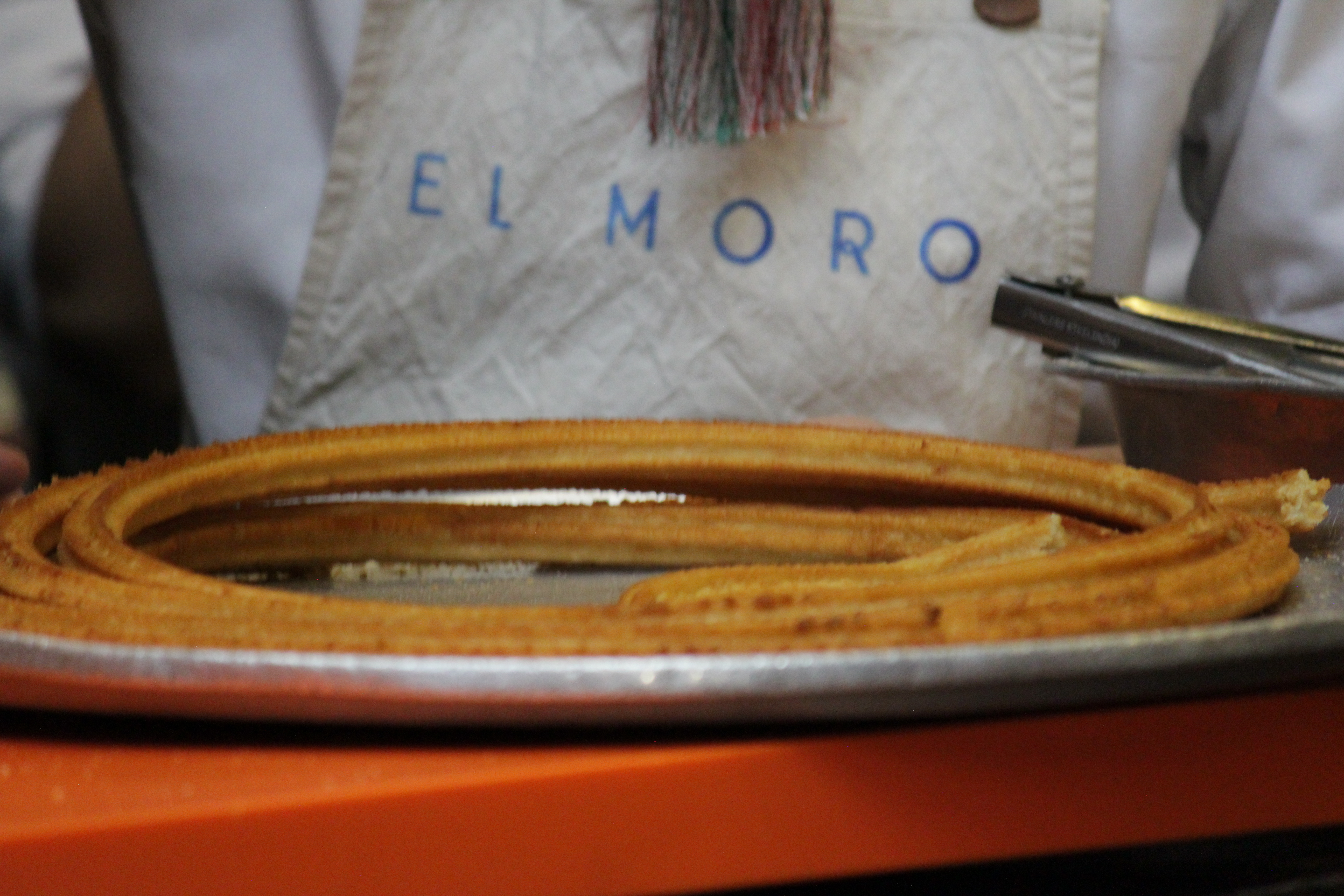 Churro, sweet bread typical of Mexico in the Roma market located in Col. Roma in Mexico City.